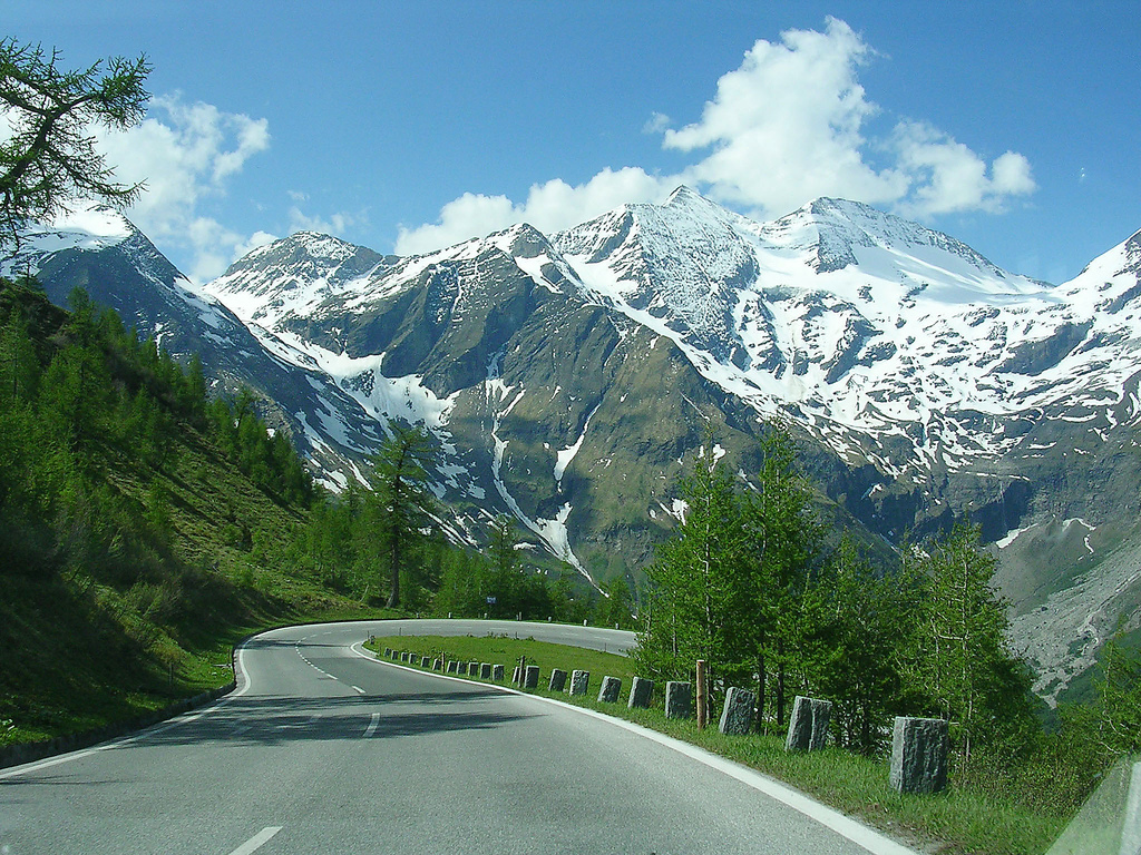 Spectacular views on the Grossglockner High Alpine Road in Austria. Looking the south.